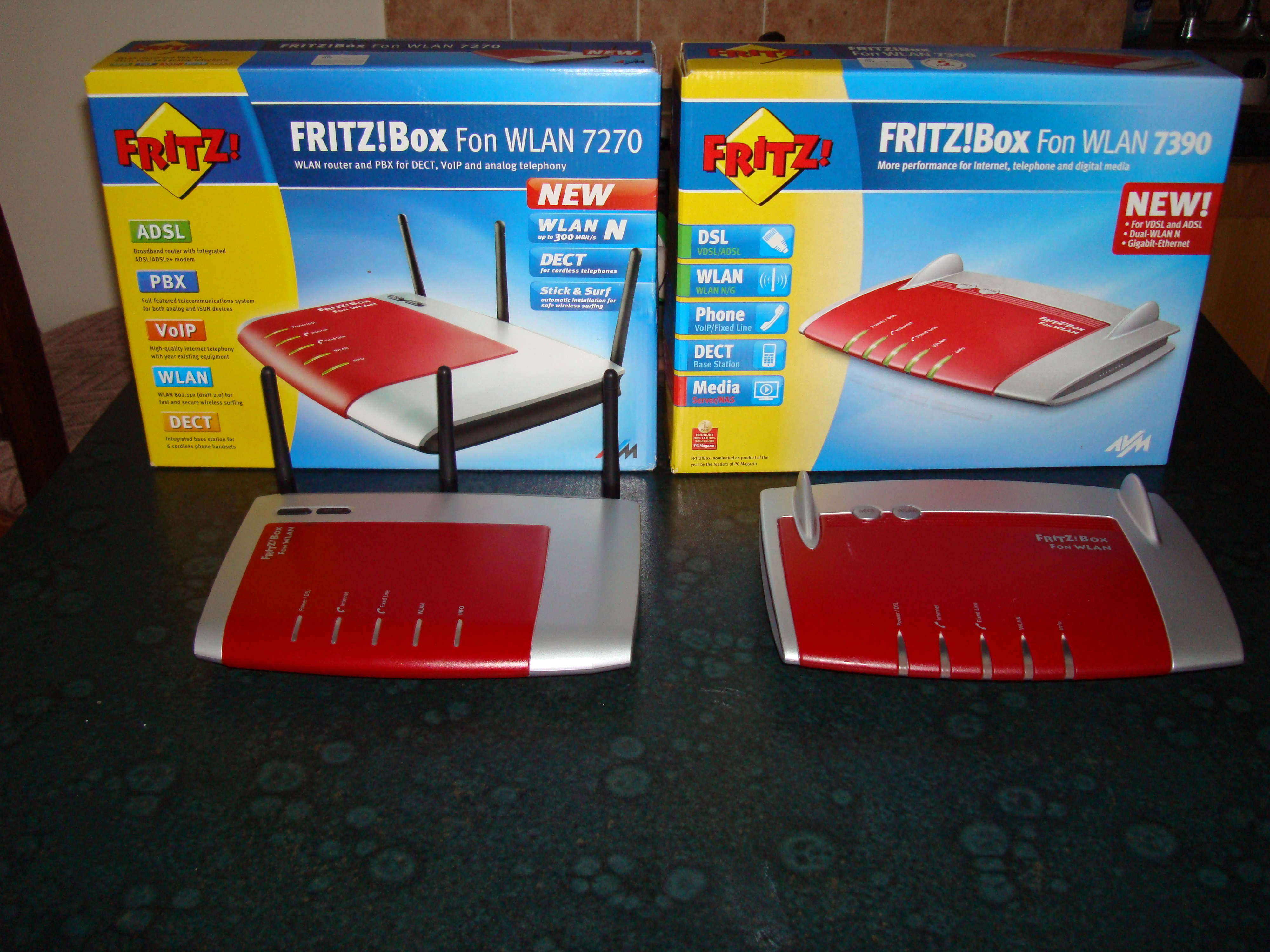 AVM Fritz!Box Fon WLAN 7270 and 7390 DSL routers. International version (Annex A and B ADSL/VDSL are supported).